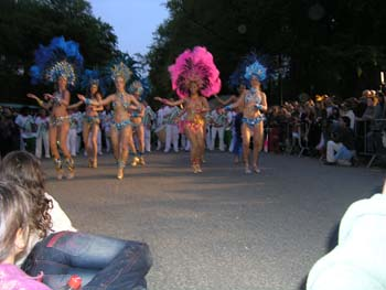 The Samba schoole Bafo do Mundo from Carnival in Copenhagen 2005 Sambaskolen Bafo do Mundo